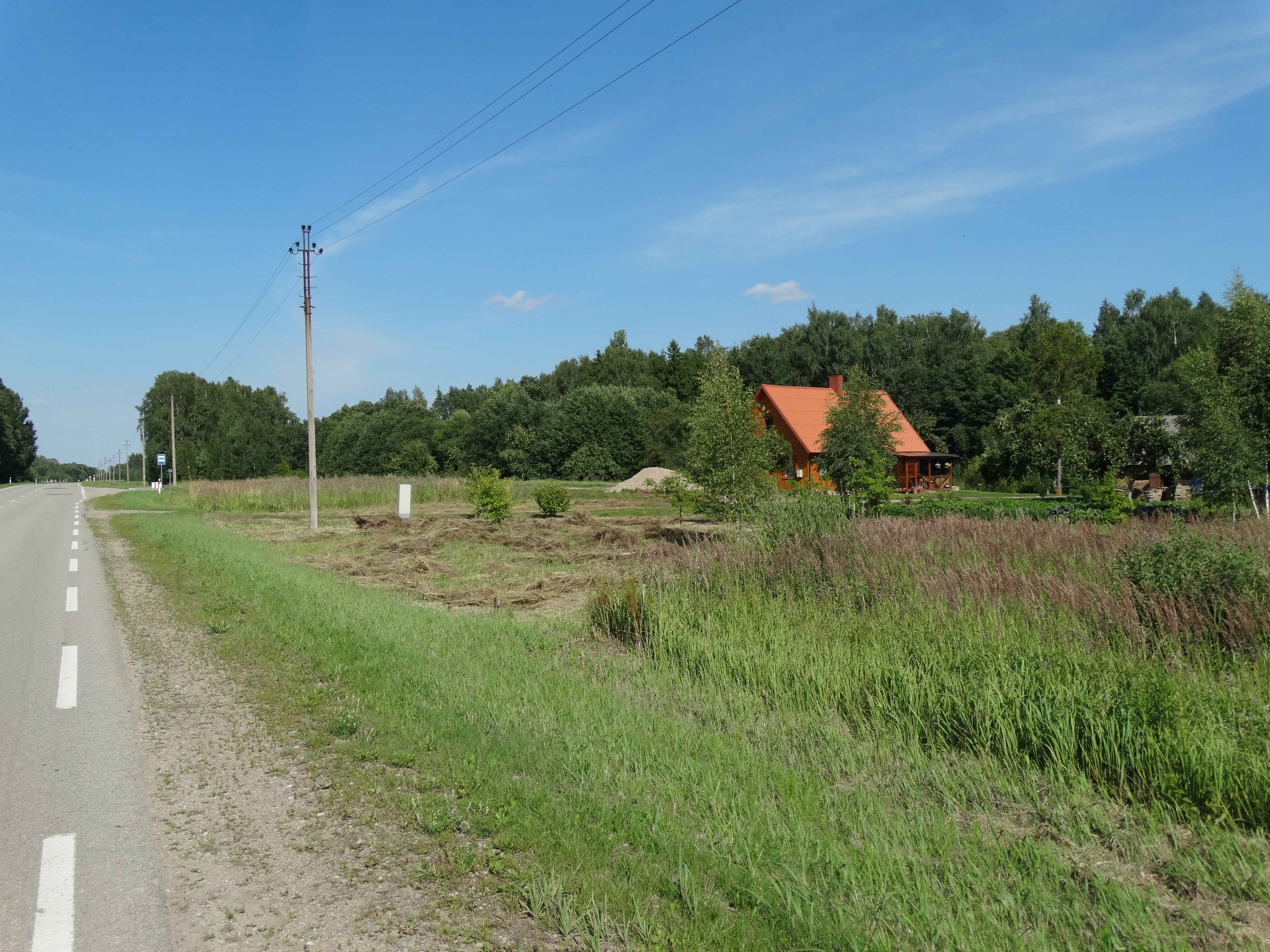 Lapgirys, Pakruojis district, Lithuania